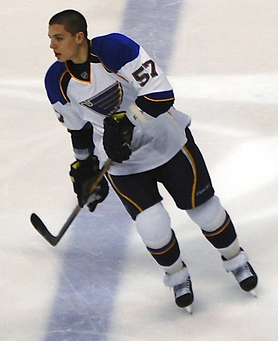 David Perron at the 2008 NHL YoungStars game